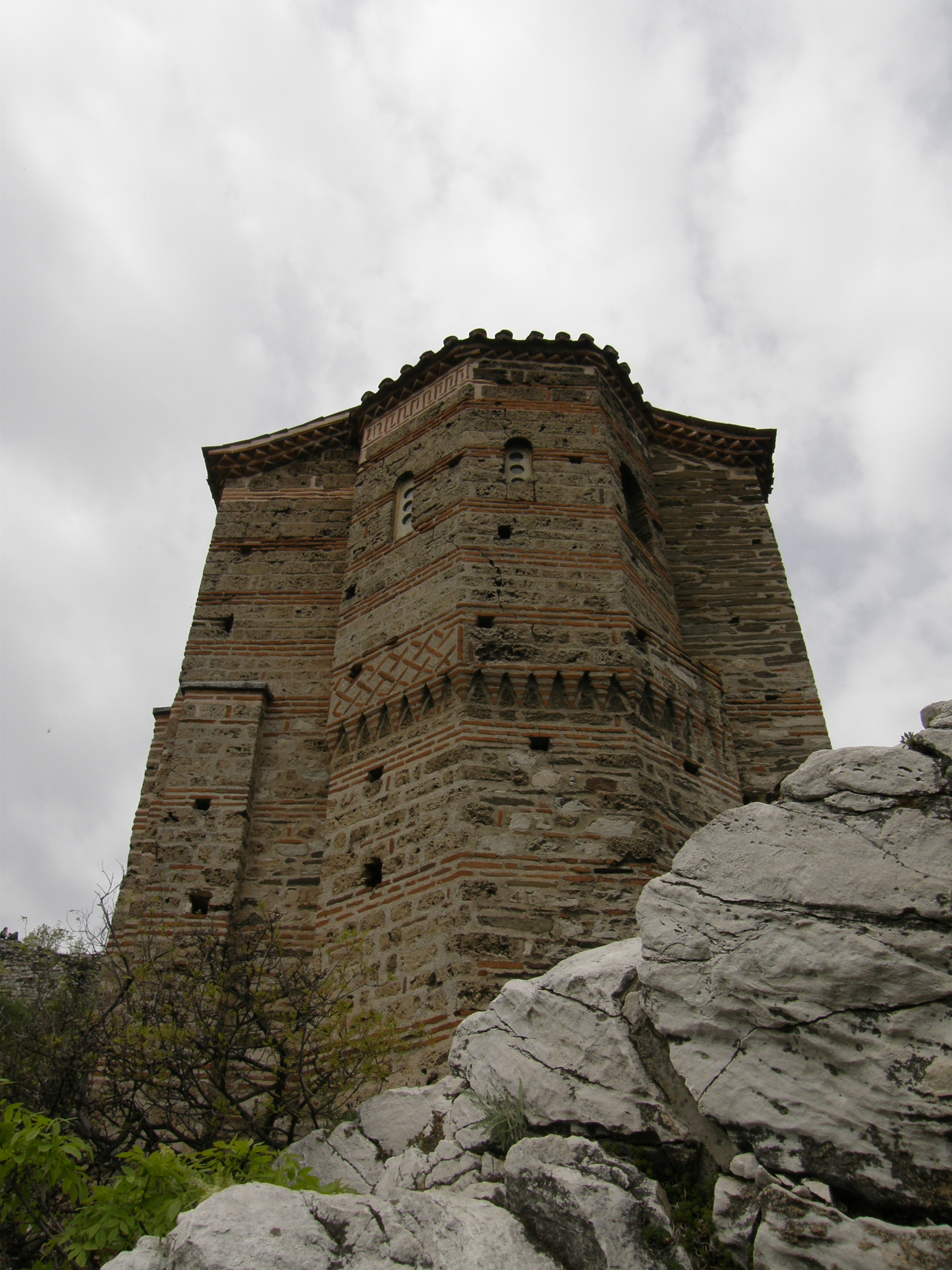 The Holy Theotokos of Petrich church inside the ruins of Asen's Krepost at Asenovgrad. The Holy Theotokos of Petrich...